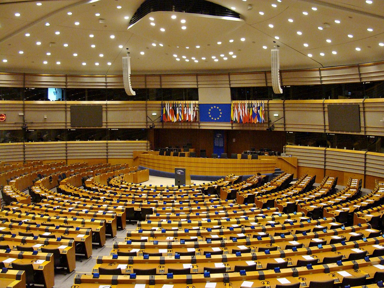 European Parliament Brussels plenary sessions hemicycle